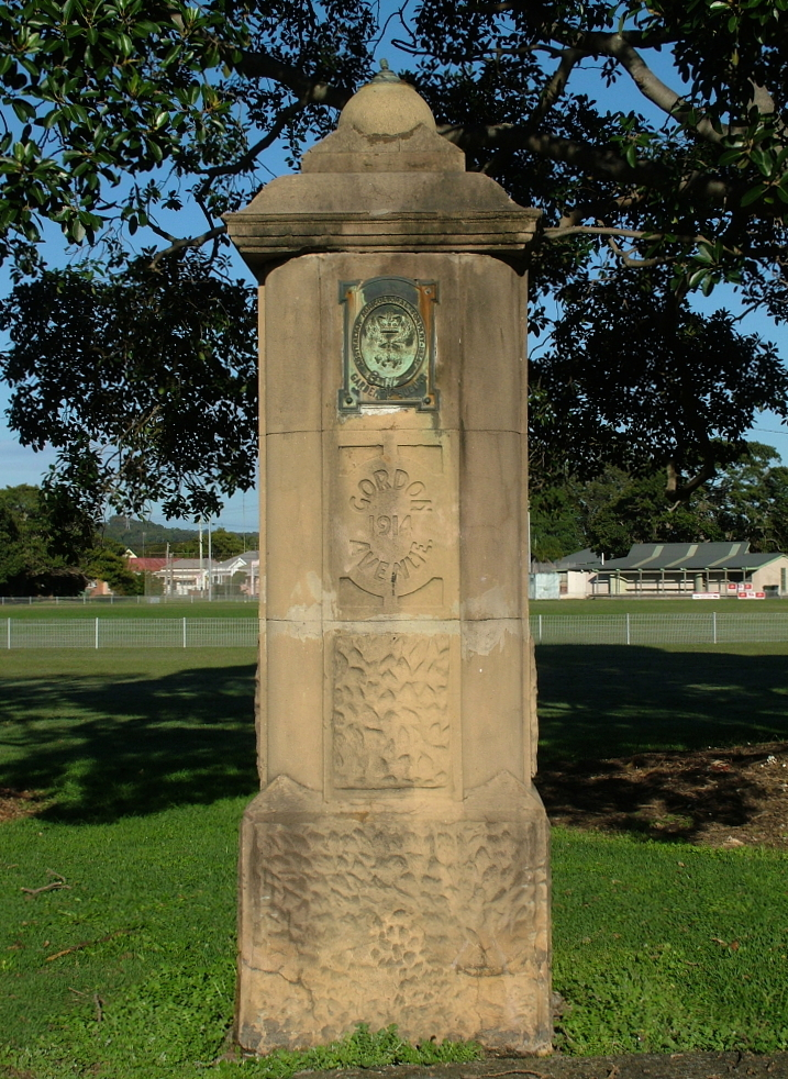 Historic Column referring to the Australian Agricultural Company, located at Learmonth Park, Hamilton, New South Wales. Dated 1914.